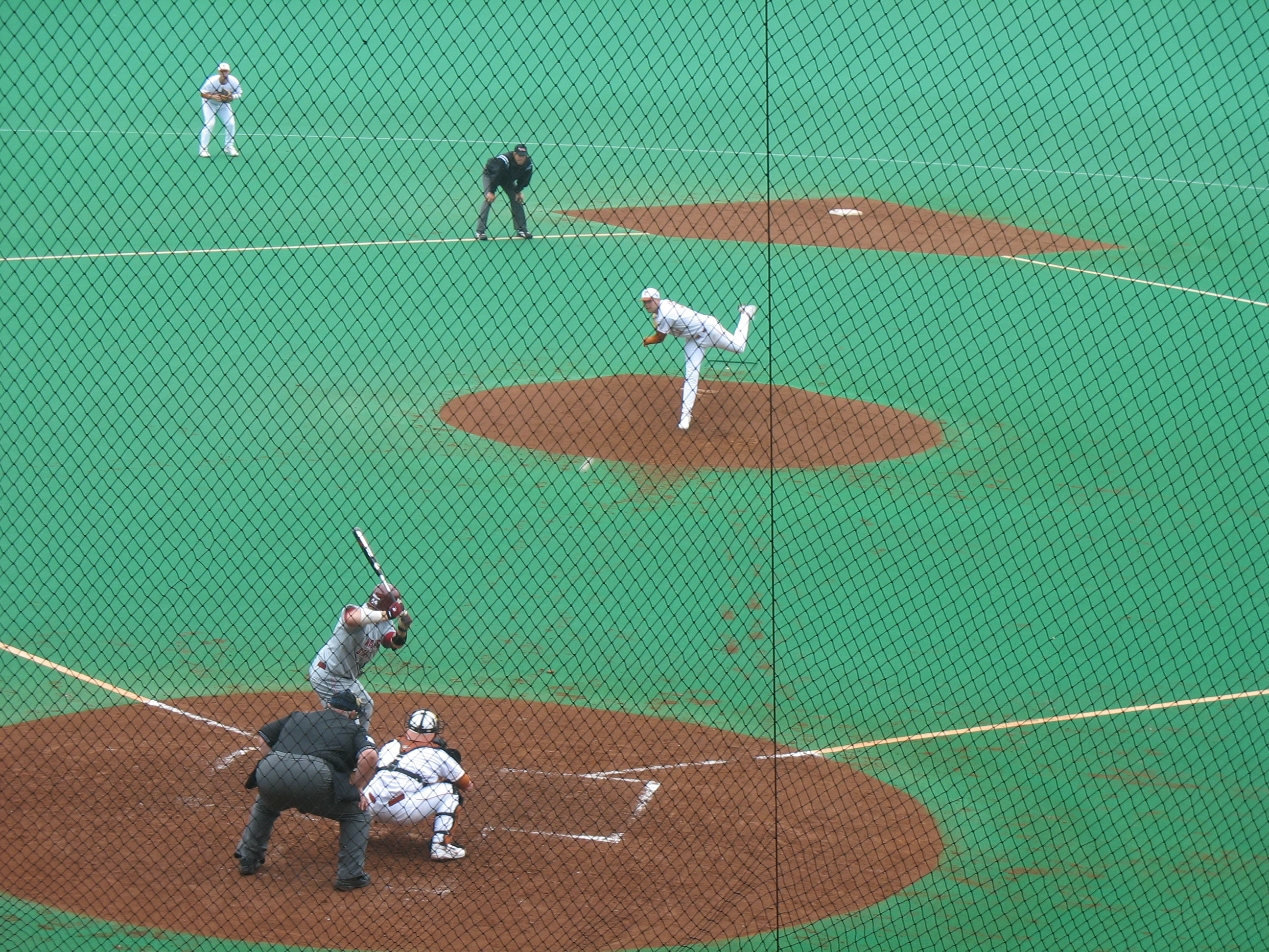 James Russell pitches against Washington State during a Texas Baseball game at UFCU Disch-Falk Field